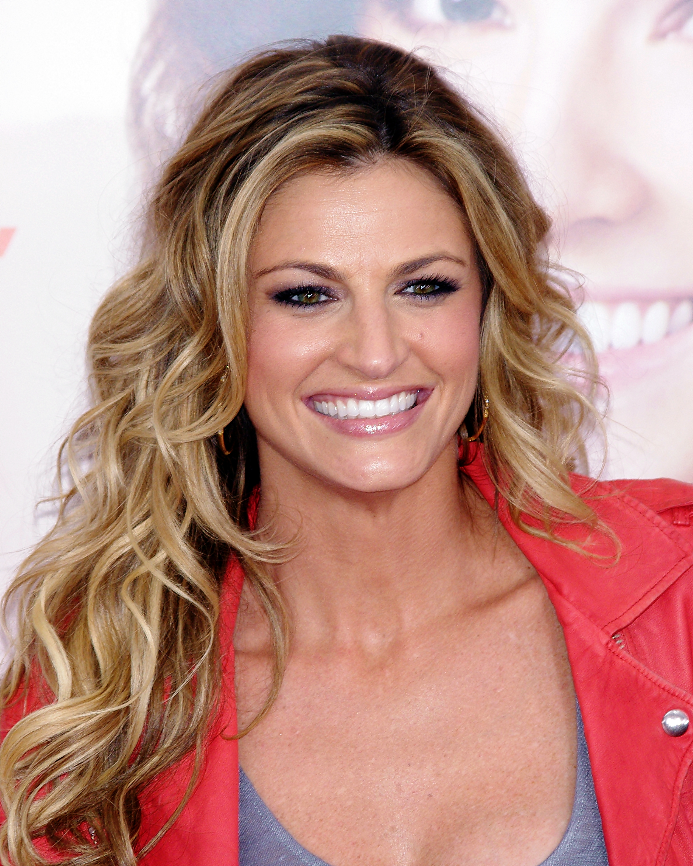 Erin Andrews at the 2012 premiere of What to Expect When You're Expecting in New York